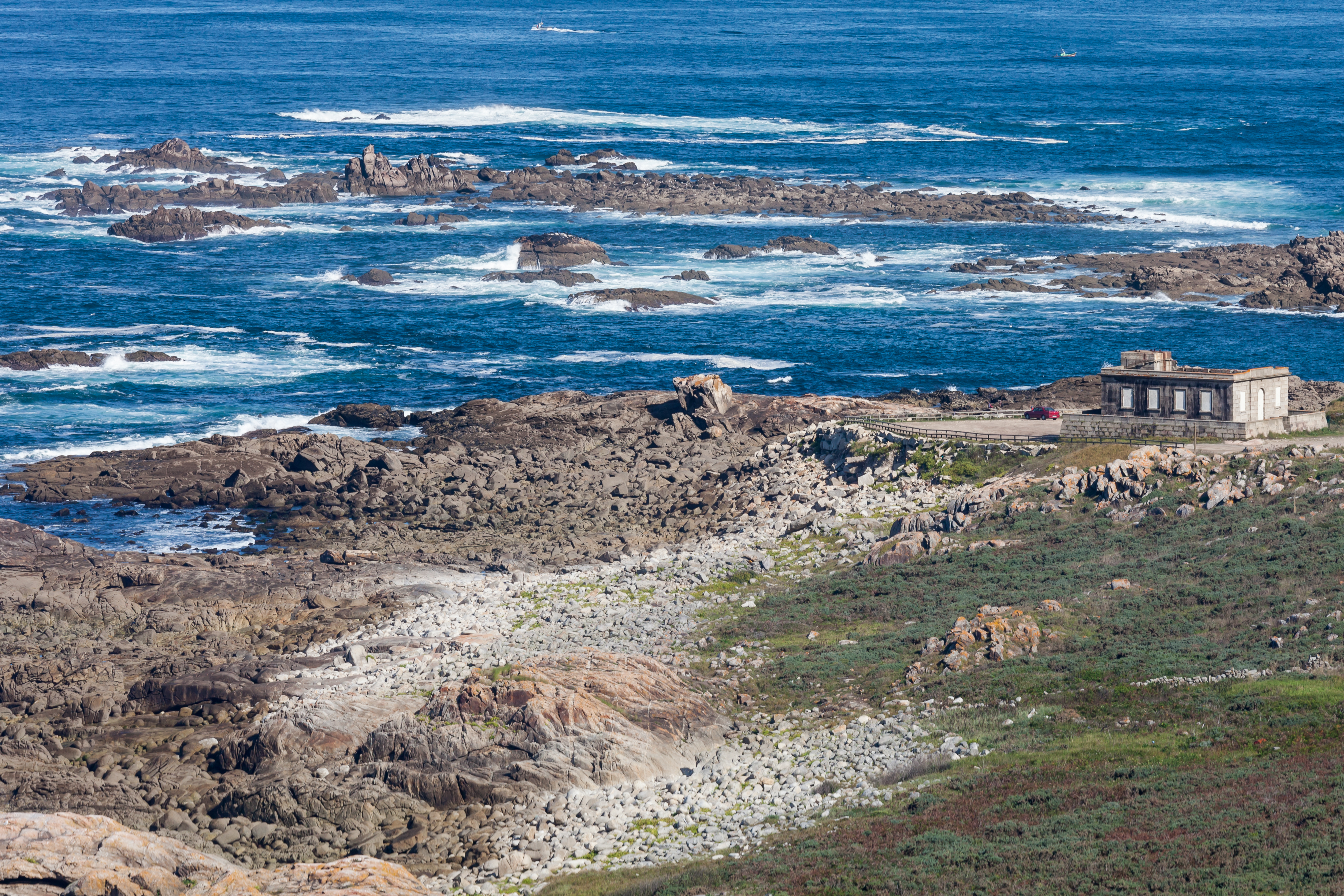 Roks and sea of Baredo, Baiona. Wiev of the Silleiro cape, Galicia (Spain)